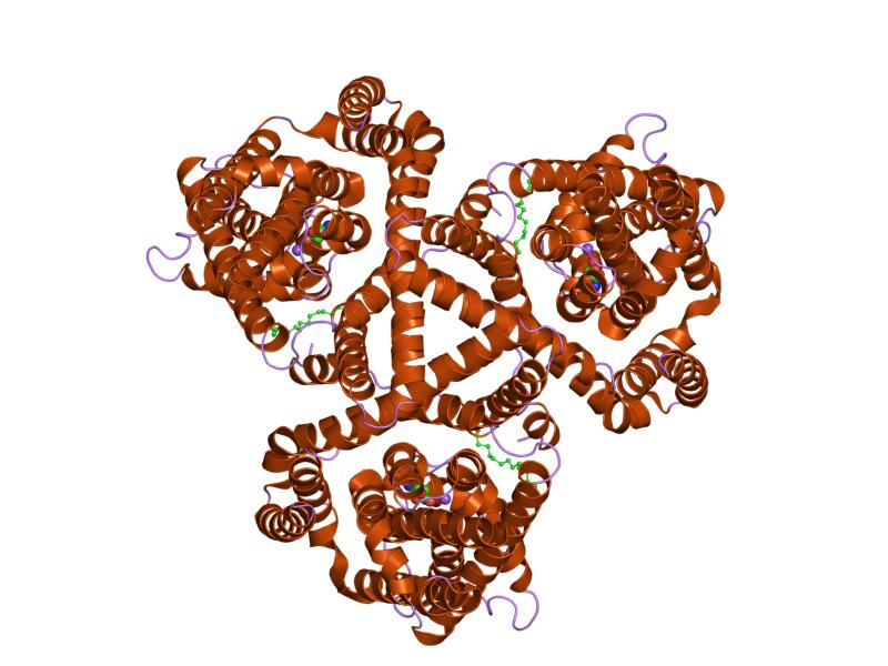 Cartoon representation of the molecular structure of protein registered with 2nwx code.